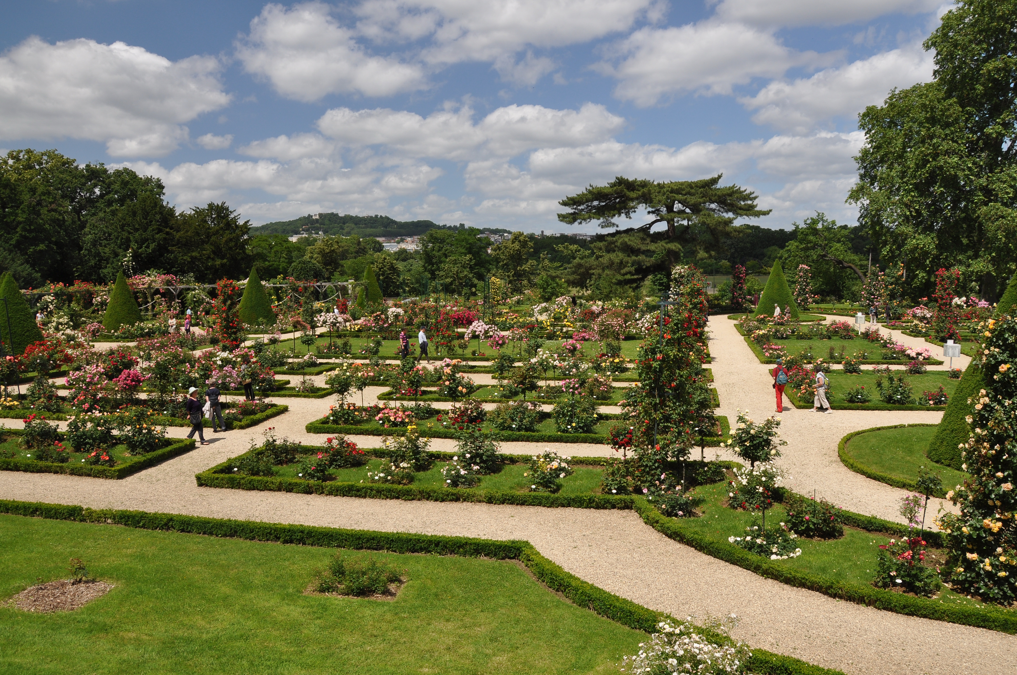 The Rose Garden of Bagatelle in Paris, France.